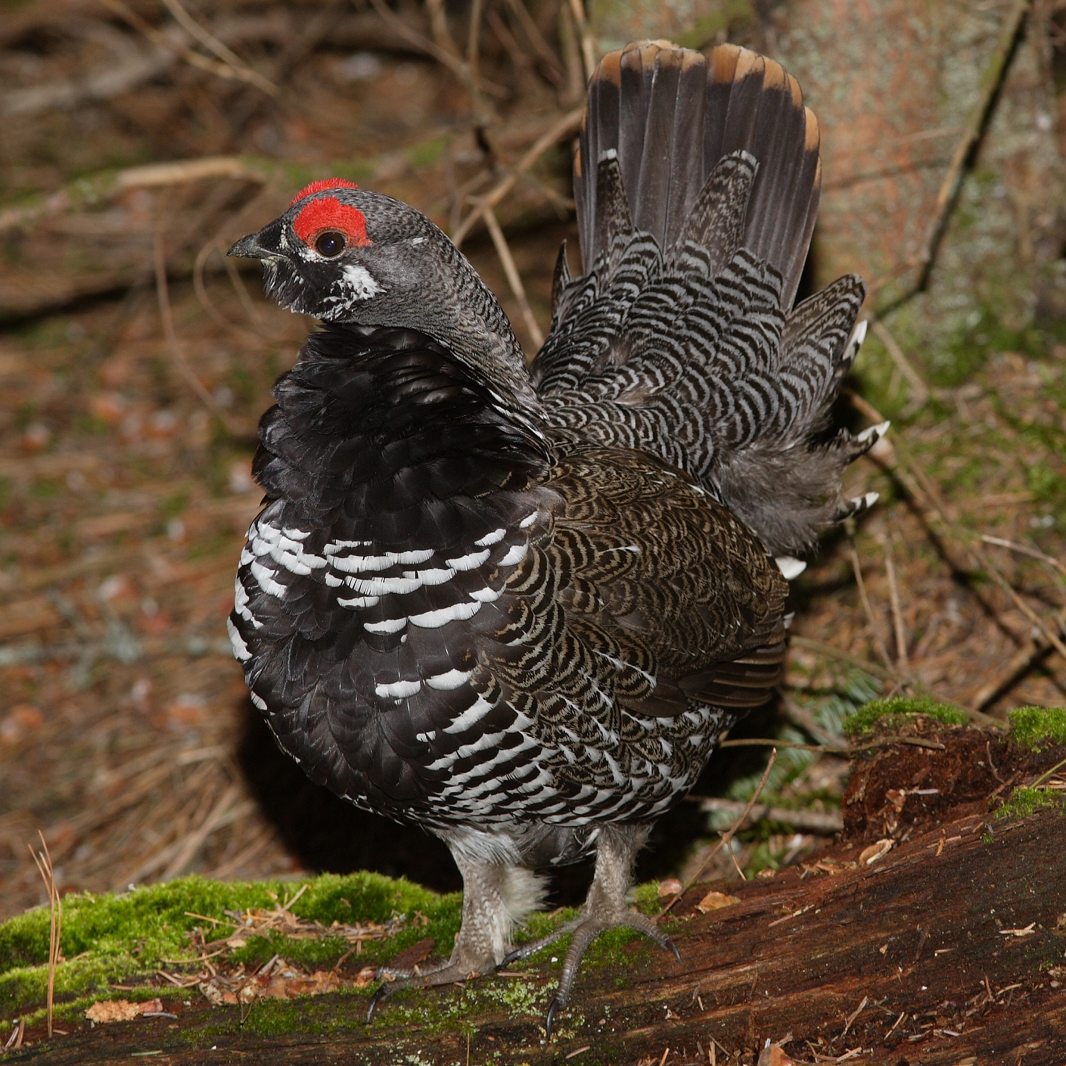 Spruce Grouse (male). Algonquin Provincial Park, Ontario, Canada.